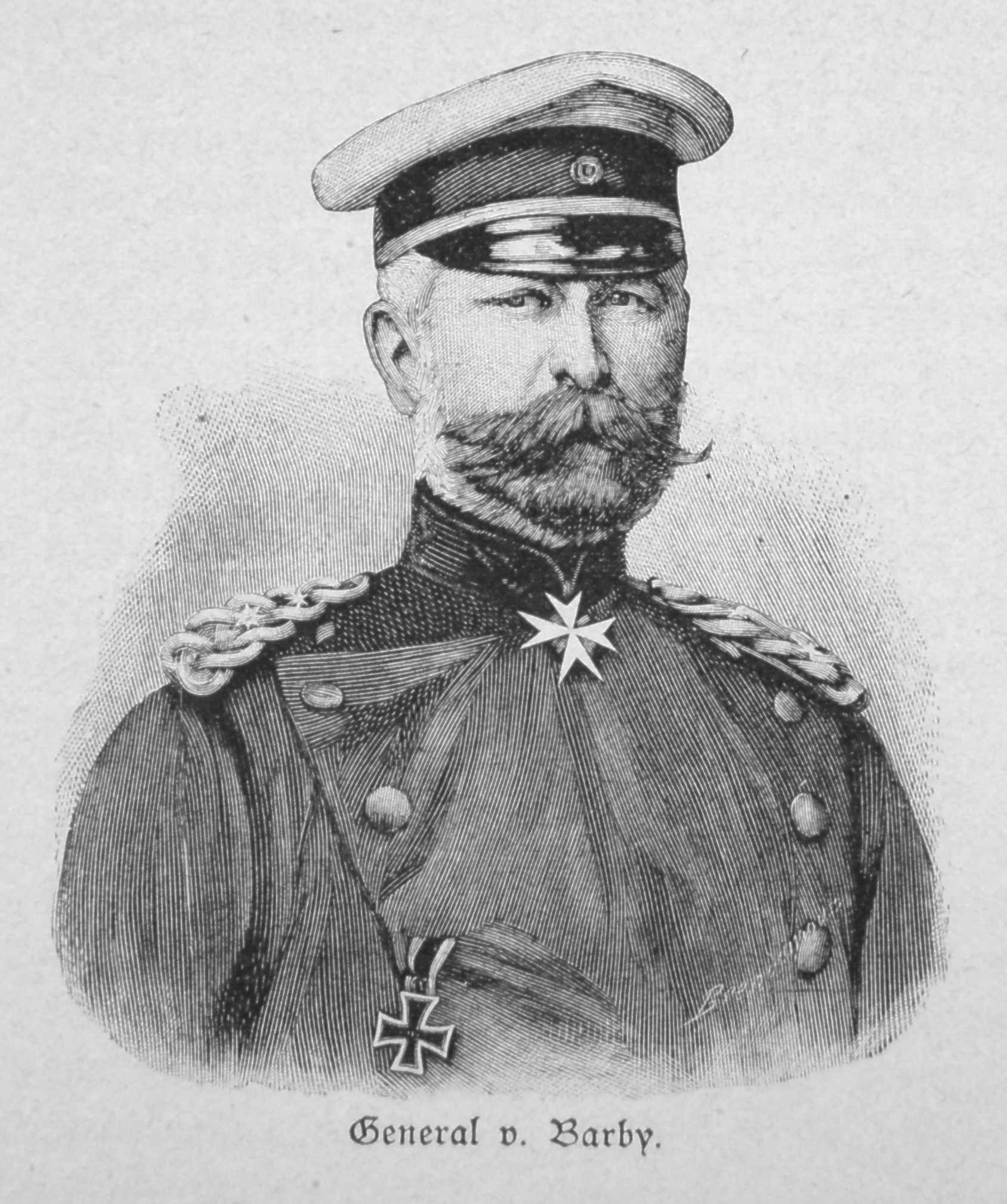 General Adalbert von Barby